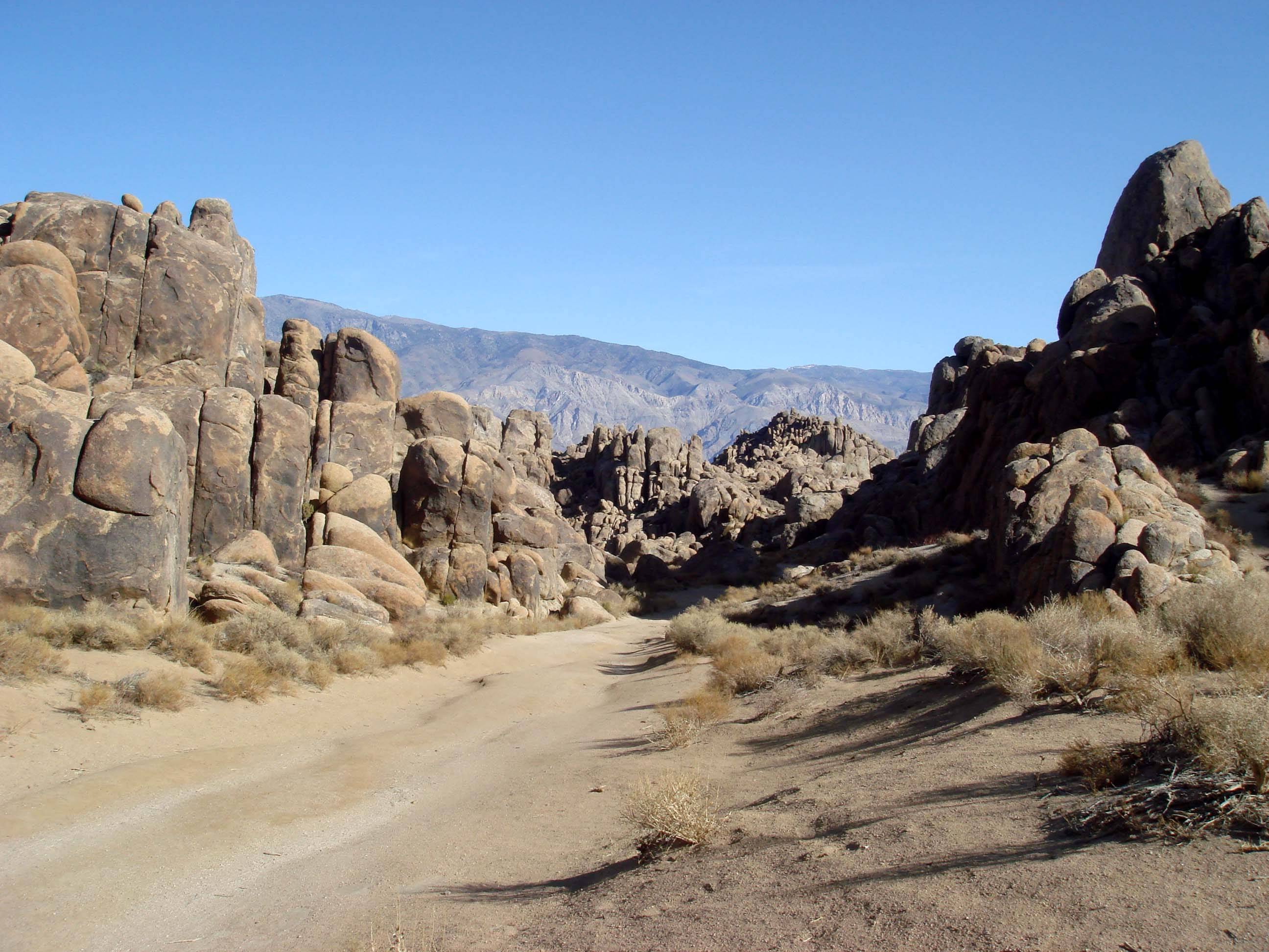 This narrow valley in the Alabama Hills doubled as the Khyber Pass in the 1939 epic Gunga Din